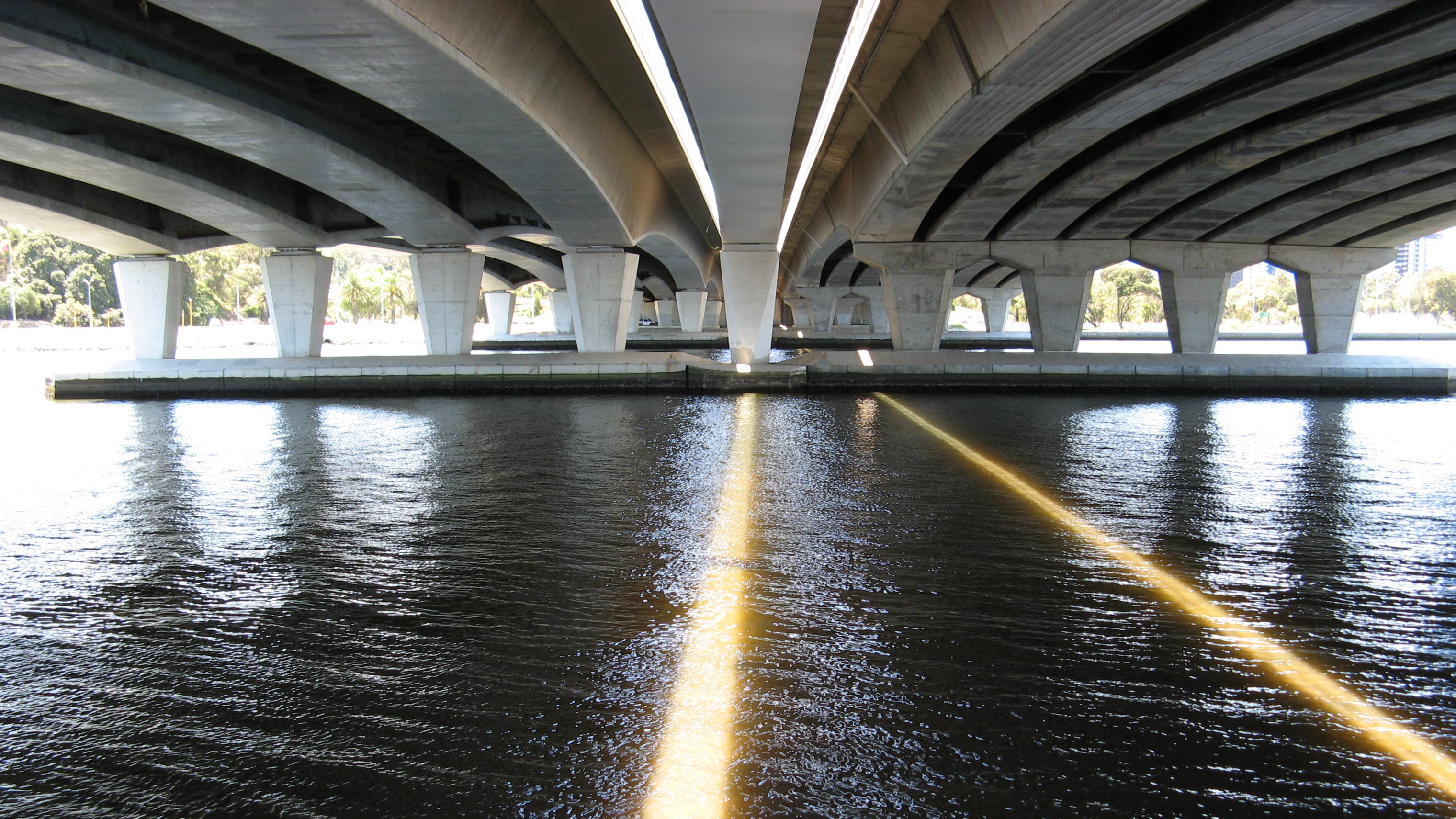 Narrow Bridge, Perth, seen from below.The yellow lines on the water are the sunlight shining through between the carriageways